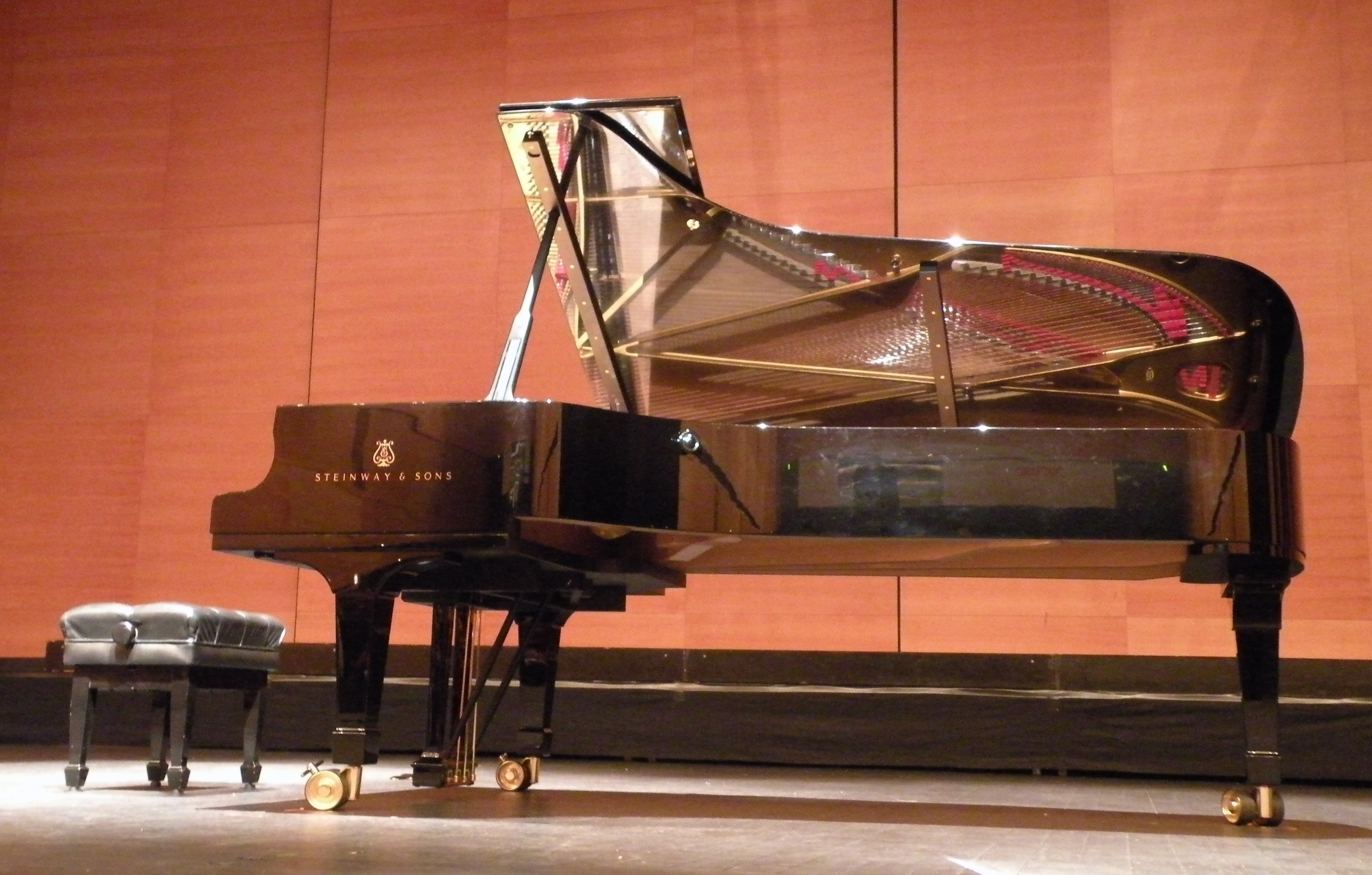 Steinway & Sons concert grand piano in high polish polyester finish, model D-274 (length: 274 cm / 107.9 in, width: 156 cm / 61.4 in, weight: approx. 480 kg / 1056 lb).